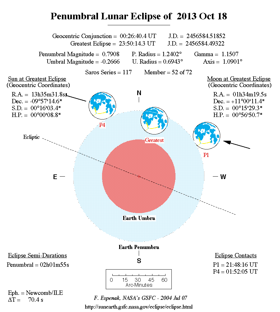 Sketch of the 2013-10-18 lunar eclipse.